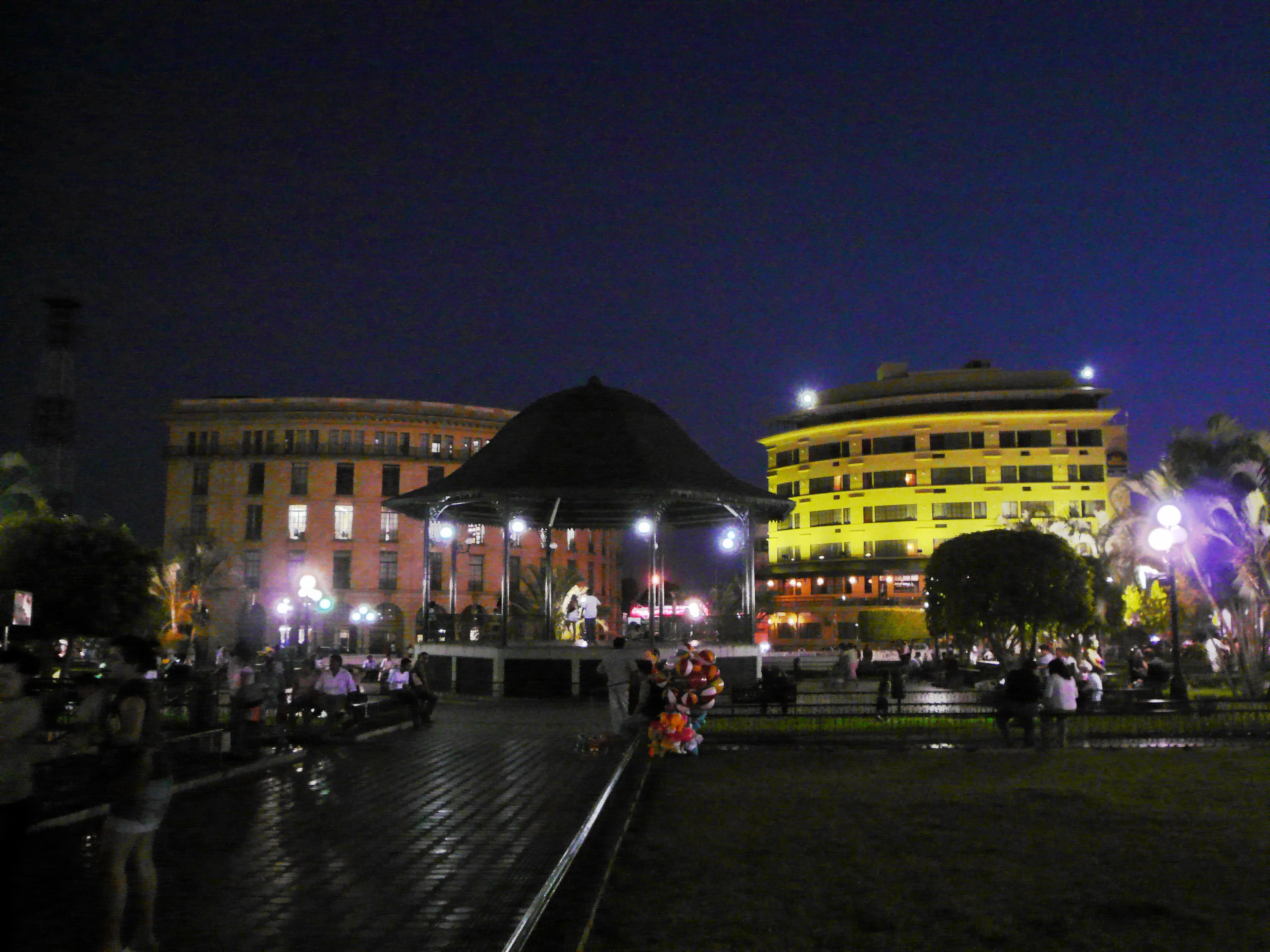 Tampico centre at night